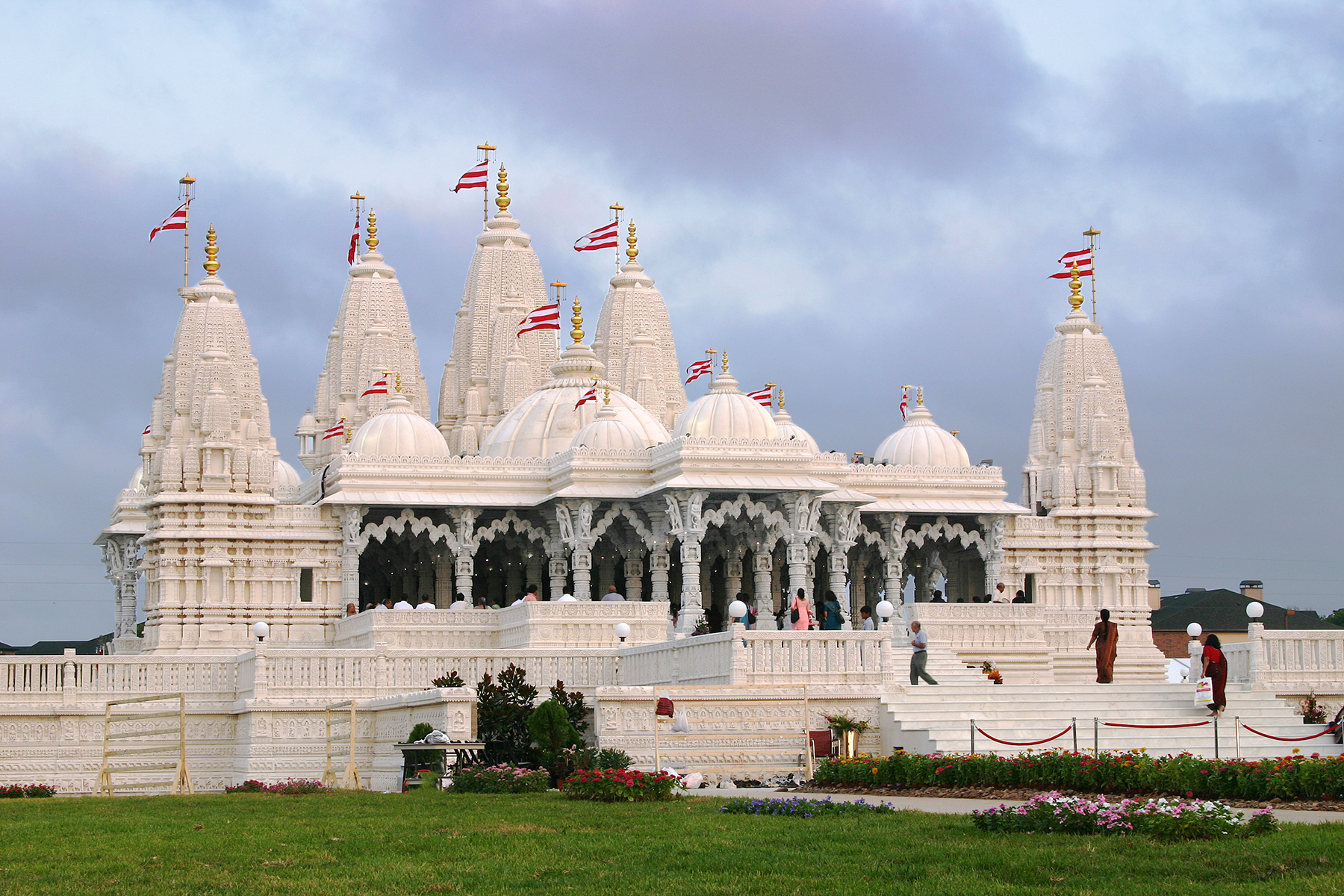 Shri Swaminarayan Mandir, Stafford (Houston area), Texas; BAPS Shri Swaminarayan Mandir in Houston is the first traditional Hindu Mandir of its kind in North America. It's a haven for spirituality and a place of paramount peace. It is also a center vibrant with social, cultural, and spiritual activities. The Mandir was inaugurated in July of 2004 after only 16 months of construction time utilizing 1.3 million volunteer hours. The Mandir is comprised of 2 types of stone (exterior Turkish Limestone and interior Italian marble). More than 33,000 individual pieces were carved by hand in India, shipped to the USA and assembled in Stafford, TX like a giant 3-D puzzle. People come to experience living Hinduism and the peace and tranquility that the sacred Mandir and Murtis provide.